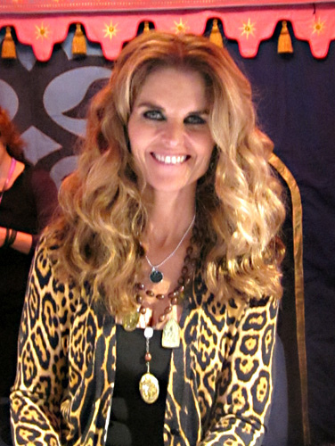 First Lady Maria Shriver at the Women's Conference book signing.